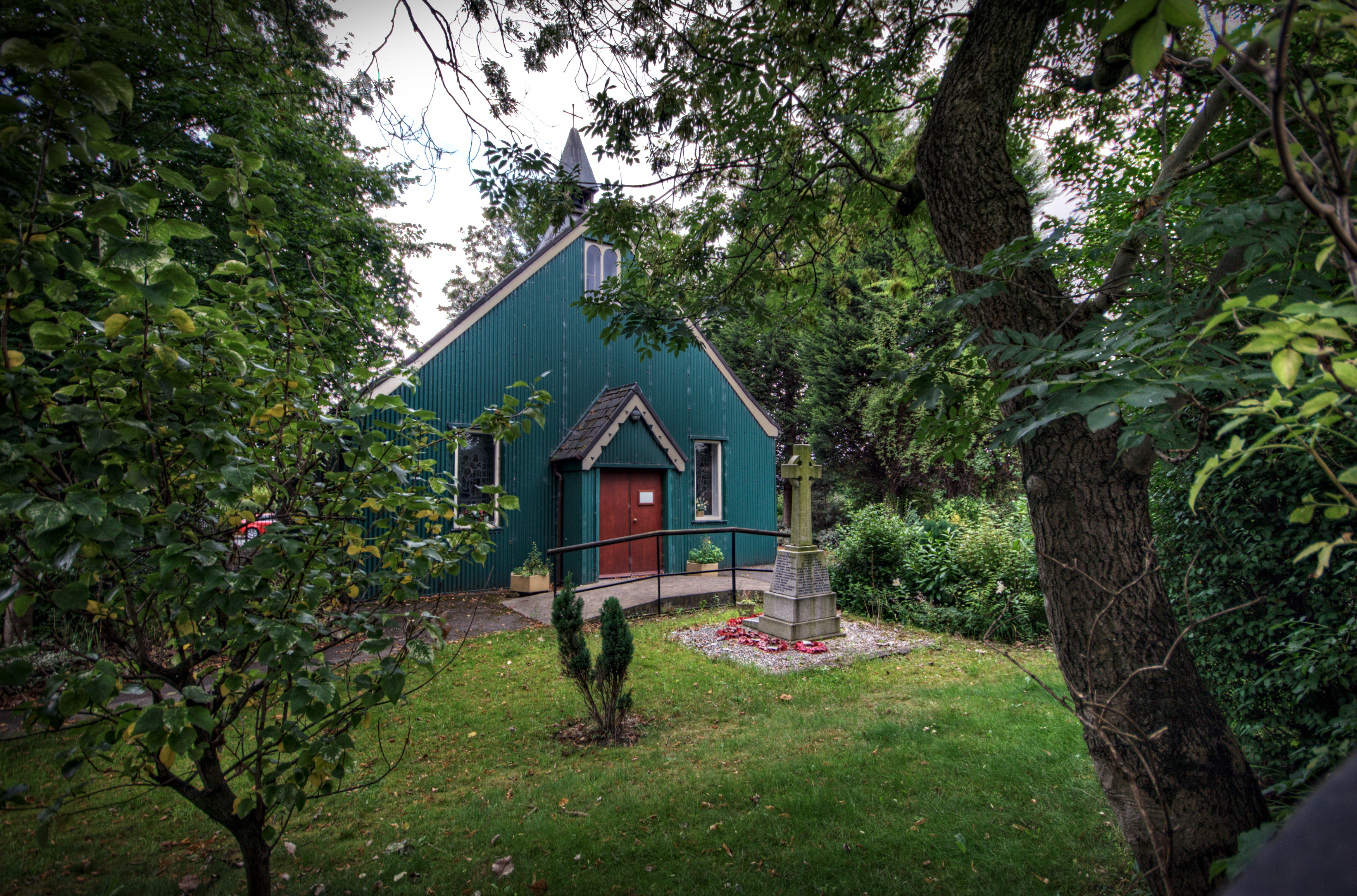 St Anthony's Church, Trafford Park